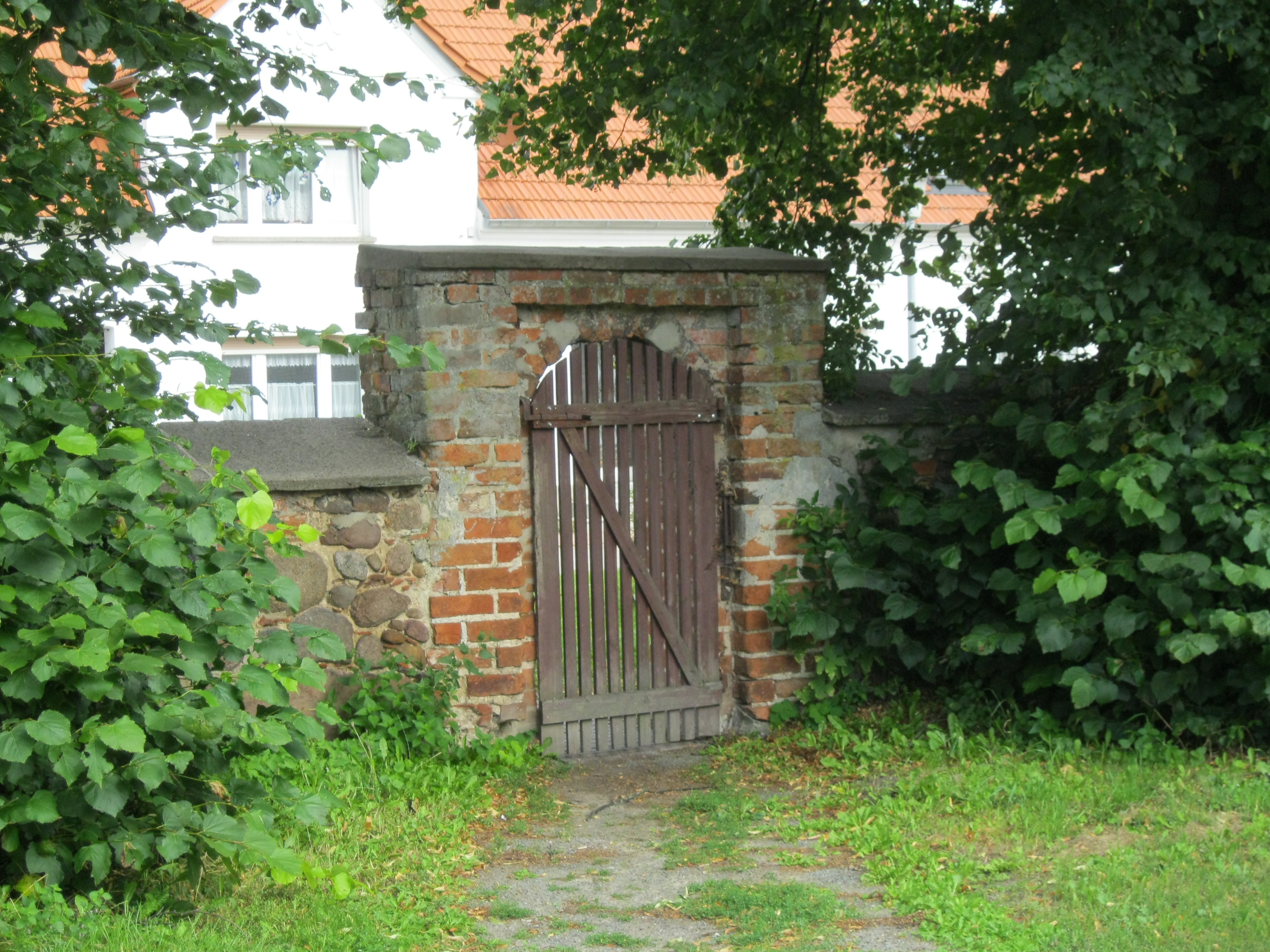 Kirchenportal Rochau